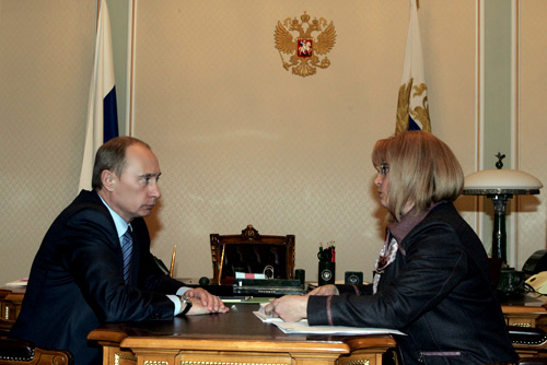 NOVO-OGARYOVO. With Chairwoman of the Council for Facilitating the Development of Civil Society Institutions and Human Rights Ella Pamfilova.